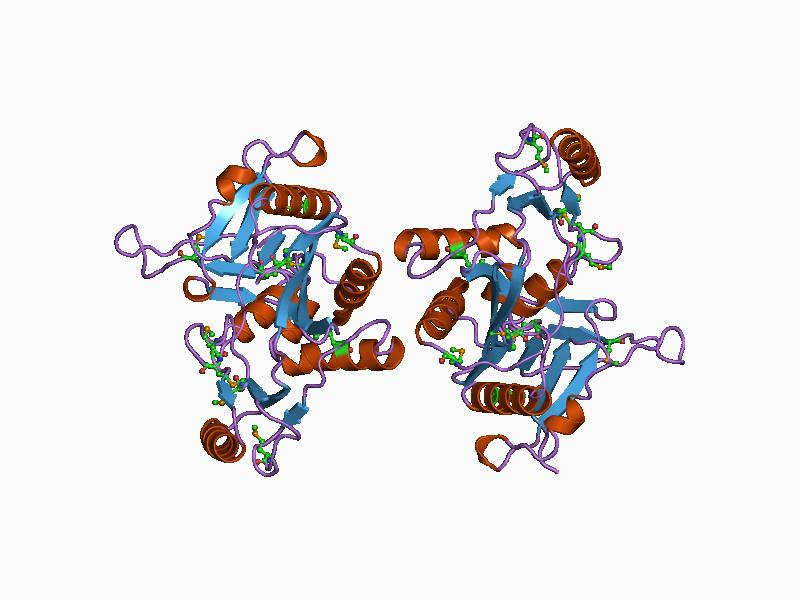 Cartoon representation of the molecular structure of protein registered with 1auv code.